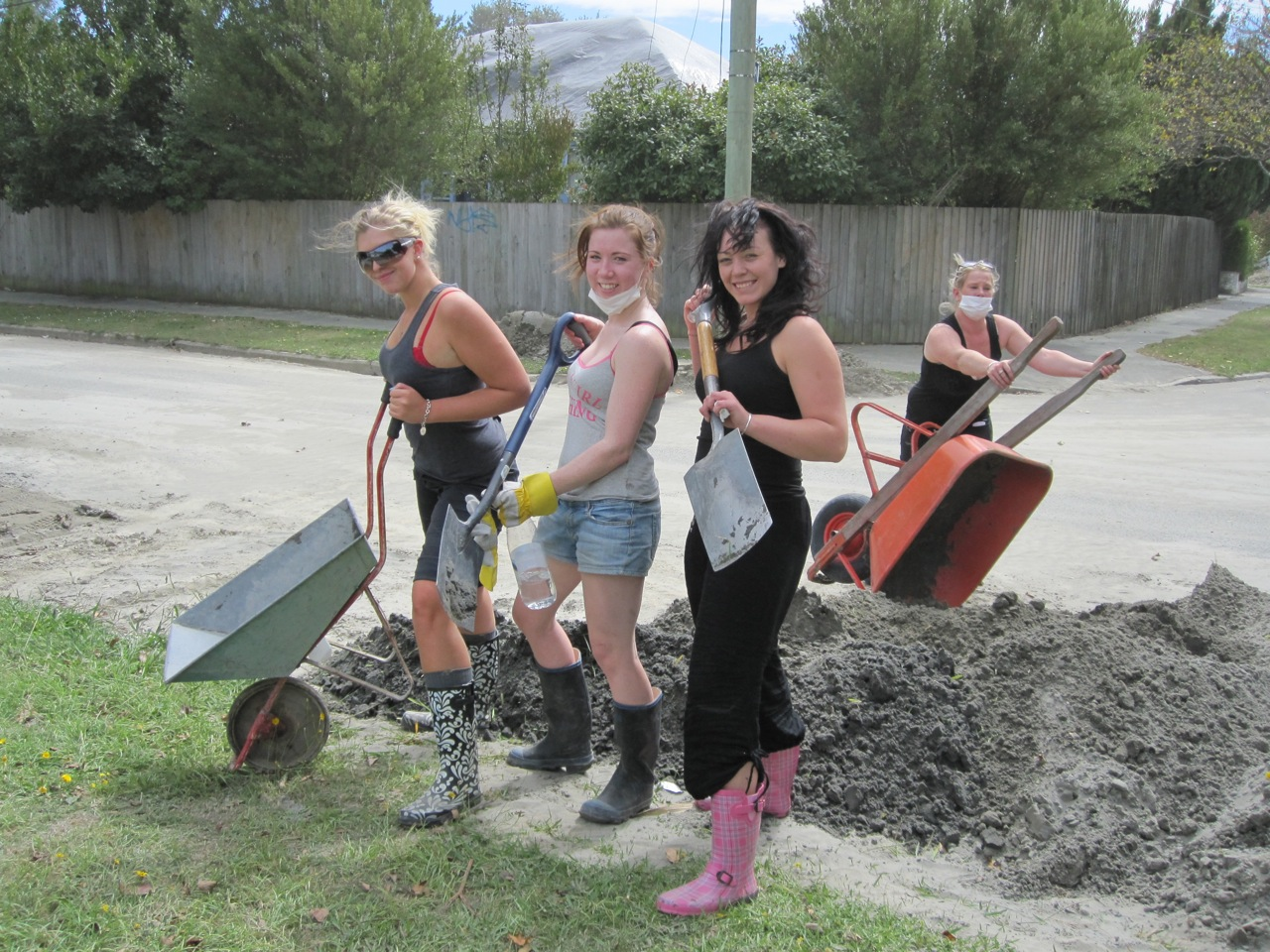 The Student Volunteer Army after the 2011 Christchurch earthquake.